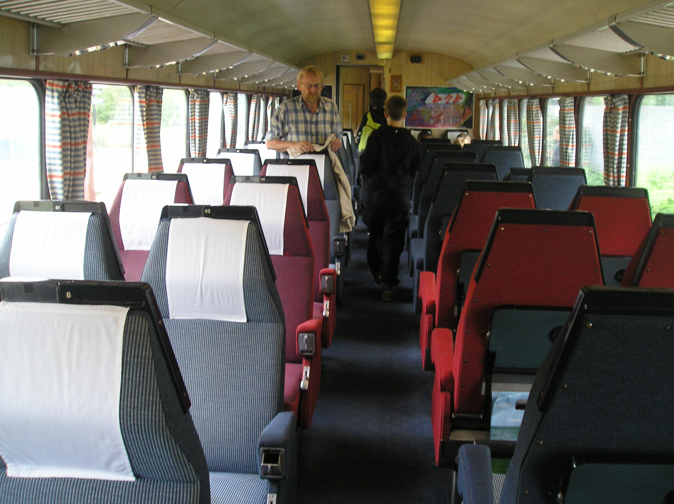 Danish multiple unit DSB Litra MA. Interior on second class.